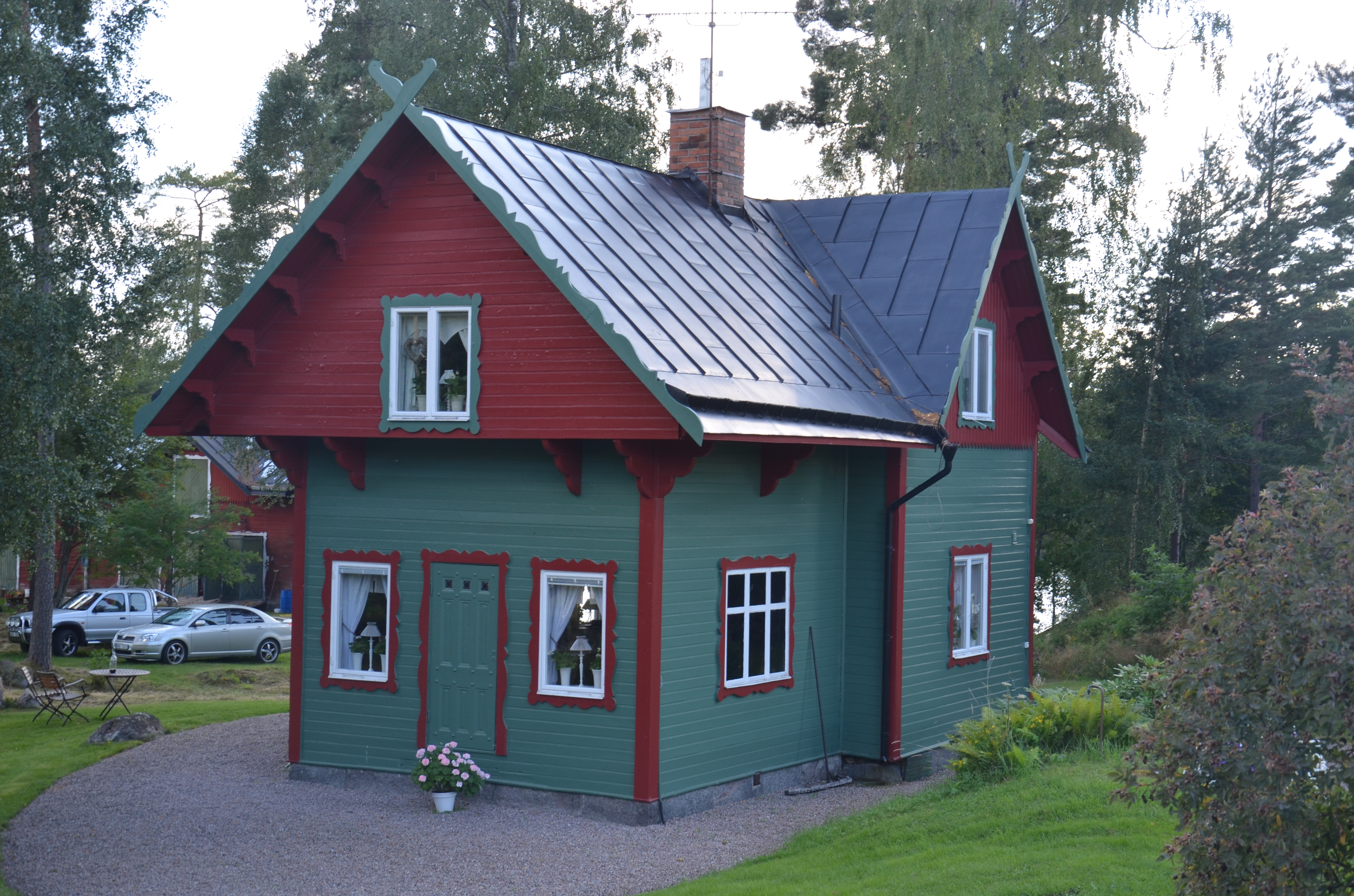 Villa Ulvaklev in Ängelsberg, Sweden, drafted by Isak Gustaf Clason (side building)